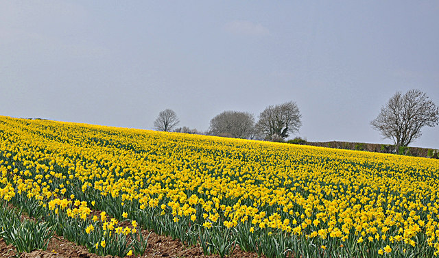 Field of Daffodils - Pentre Meyrick. Well developed now with only a small number harvested. There is a nursery across the road from the field so perhaps these will remain for harvesting of their bulbs.